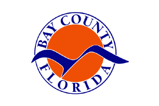 The official flag of Bay County, Florida, consisting of the county seal on a white background. The seal is of a circular design with a stylized blue bird (possibly a gull), against an orange circle (possibly a sun), with the words "BAY COUNTY" and "FLORIDA".